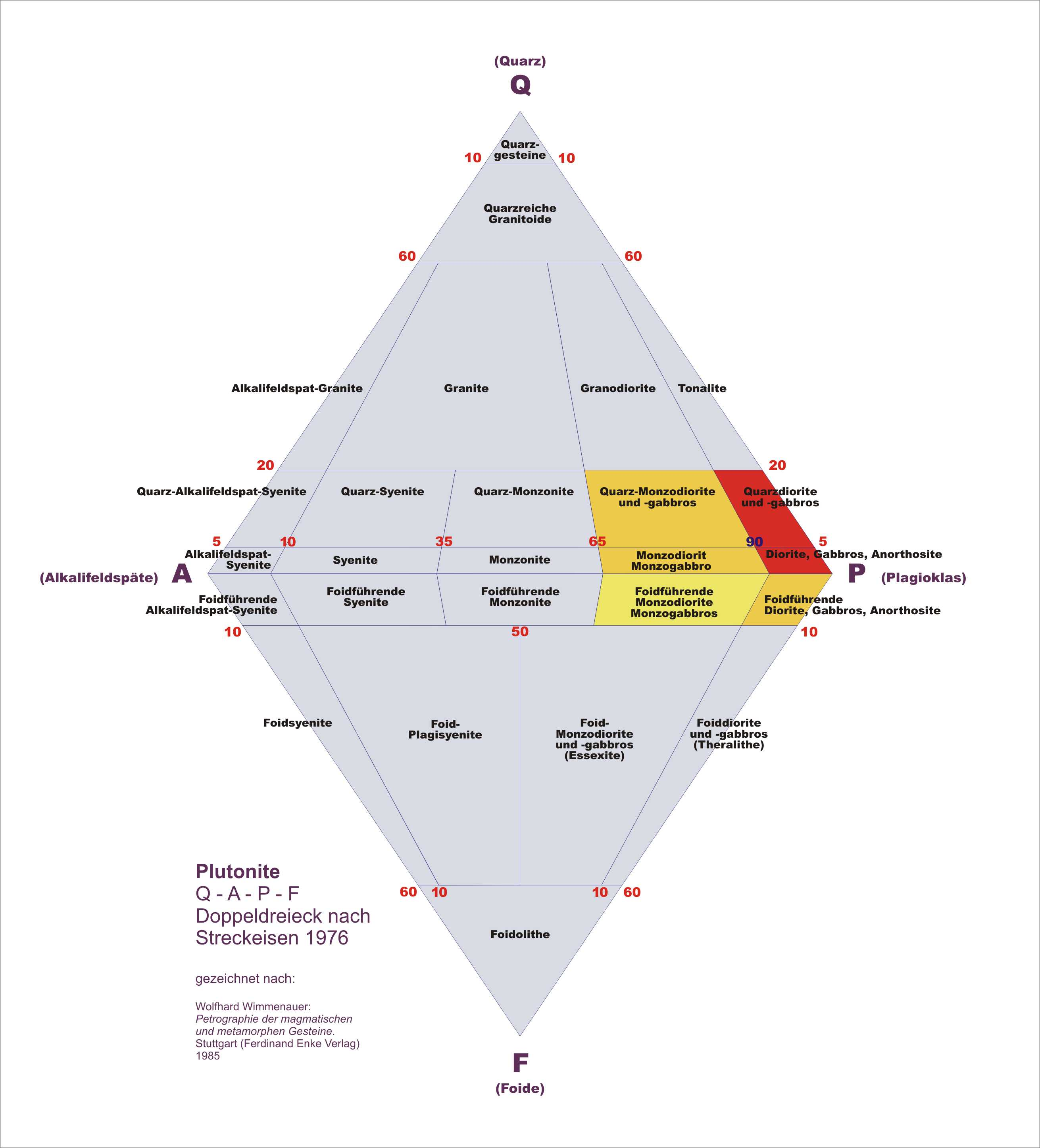 QAPF diagram (diorites)